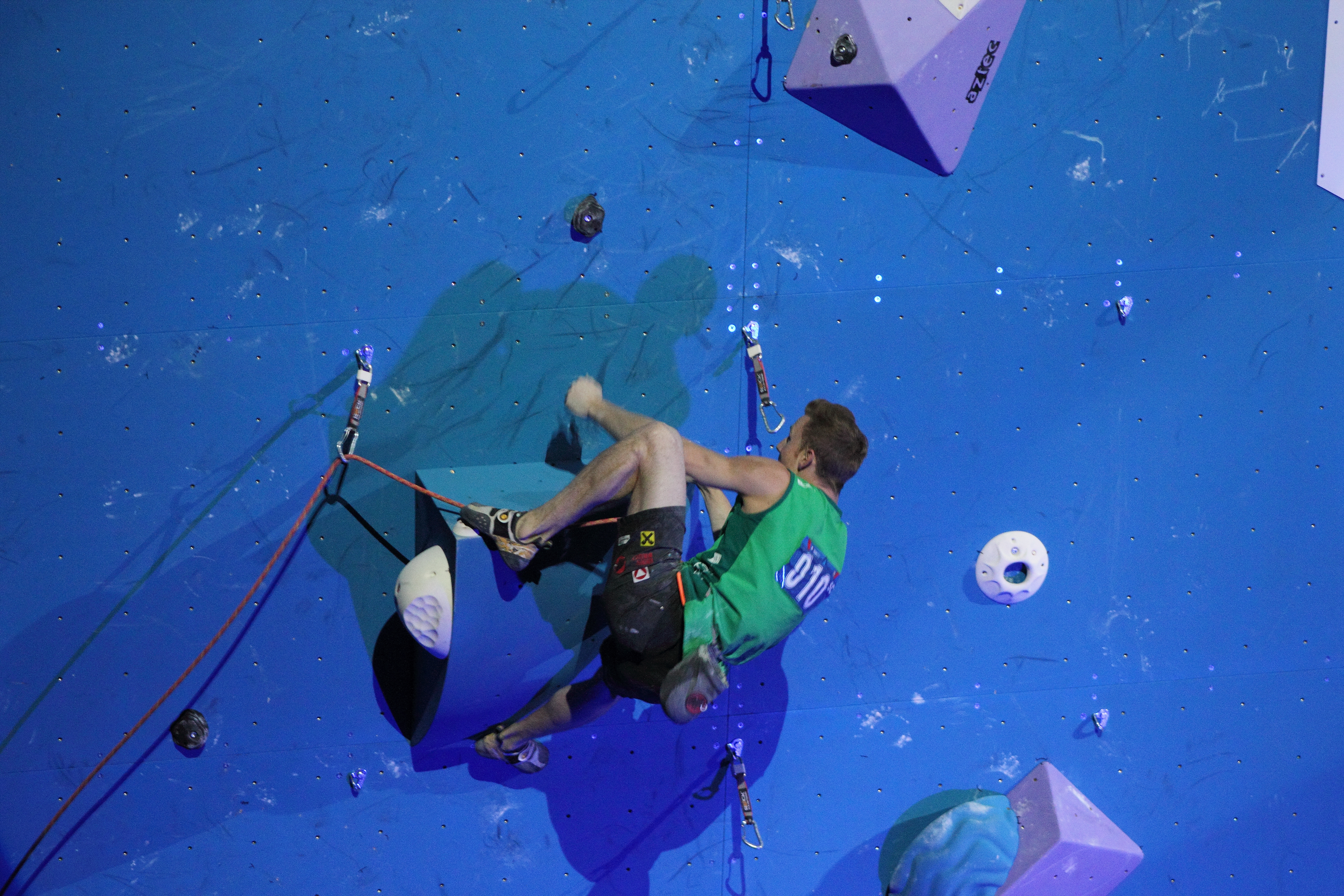 Jackob Schubert at the 3rd CISM Winter Games 2017 in Sochi, lead.